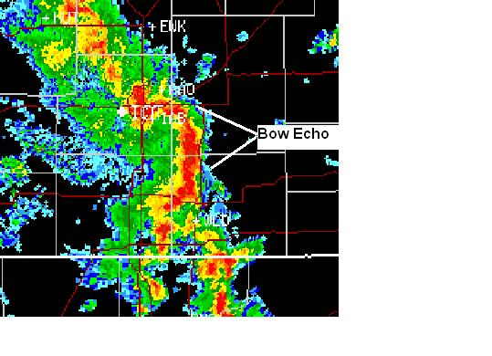 Radar Image displaying a bow echo that traveled throughout the Wichita Metropolitan Area. The curved shaped section located at the front of the thunderstorm complex represents the area the strongest winds occurred. The radar shot was taken at around 6:00 PM CDT on October 17, 2007 during the Mid-October 2007 tornado outbreak that affected most of the United States Midwest, the southern Gulf Coast and the Great Lakes regions the most intense portion of the storm was located near Andover in Butler